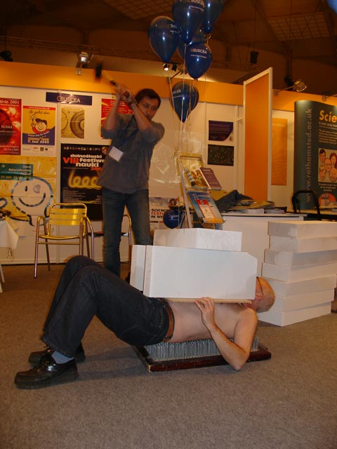 A "fakir" lies on a bed of nails, with a board on top of him. Cinder blocks are placed on the board, and then smashed with a sledgehammer - "magic" trick